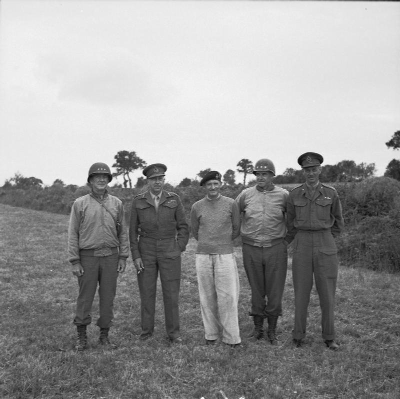 Field Marshal the Viscount Montgomery of Alamein Kg Gcb Dso 1887-1976 The Second World War 1939 - 1945: The Allied Army Commanders hold a conference in a hayfield in North West France. With General Montgomery are General Hodges (US 1st Army), General Crerar (Canadian 1st Army), General Bradley (US 1st Army) and General Dempsey (British 2nd Army). General Montgomery relinquished control of ground forces to Eisenhower at the beginning of September 1944, but was to remain Commander of 21 Army Group. In recognition of his role in the Allied victory in Normandy, he was promoted to Field Marshal.